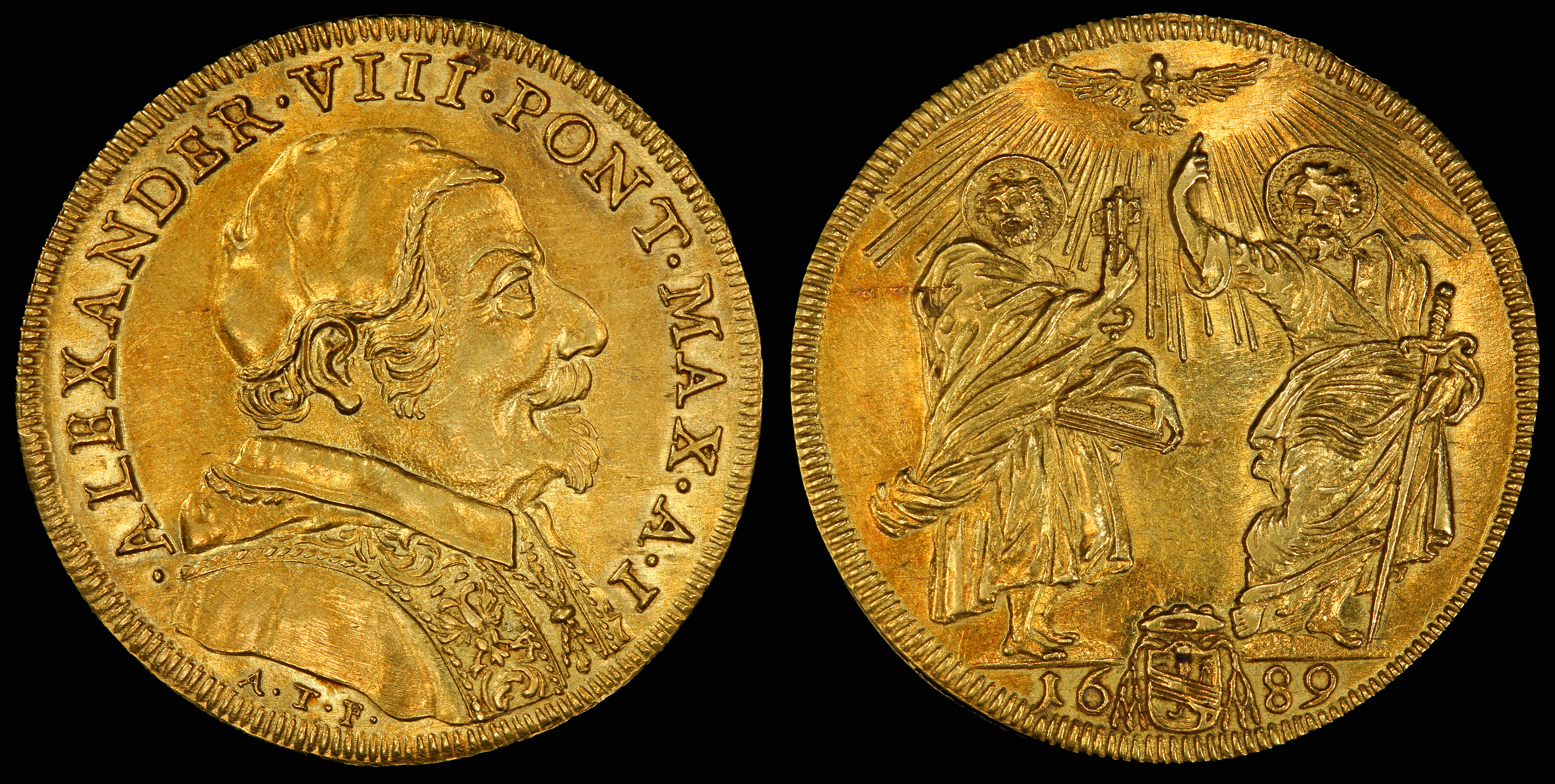 Papal States, Quadruple Scudo d'Oro (1689) depicting Pope Alexander VIII (obv) and Saints Peter and Paul (rev), engraved by Antonio Travani, a goldsmith and medalist in Rome.[1]